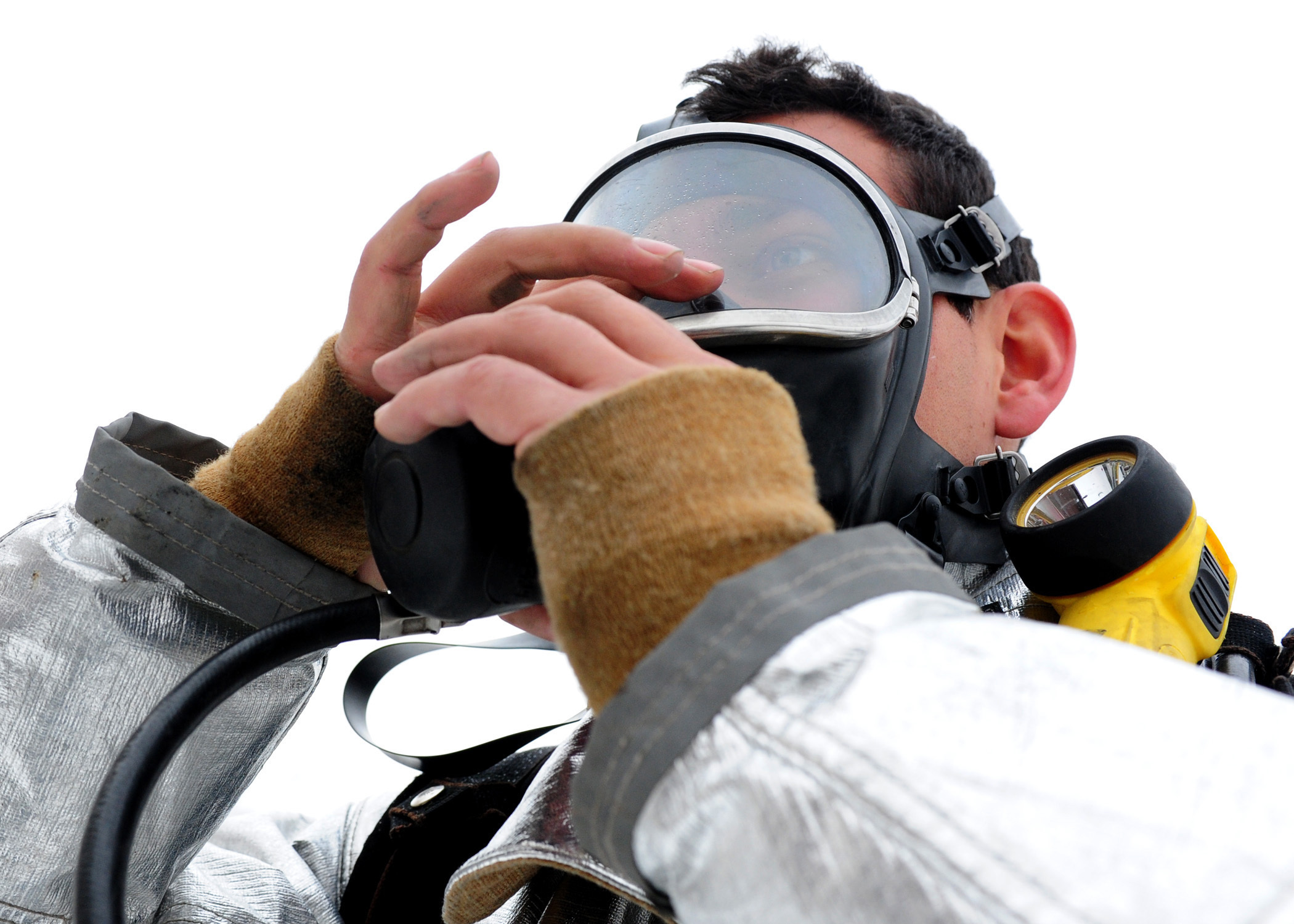 U.S. Air Force Senior Airman Paul Hartmire, an adviser with the 439th Air Expeditionary Advisory Squadron, adjusts his oxygen mask while suiting up for a live fire exercise at the Air University Fire Academy at Kabul International Airport, Afghanistan, Jan. 15, 2012. Afghan National Army (ANA) and ANA Air Force firefighters participated in a three day course that included training on controlled fires, protective equipment and training on safety procedures used in a controlled environment under the supervision of U.S. Air Force advisers.